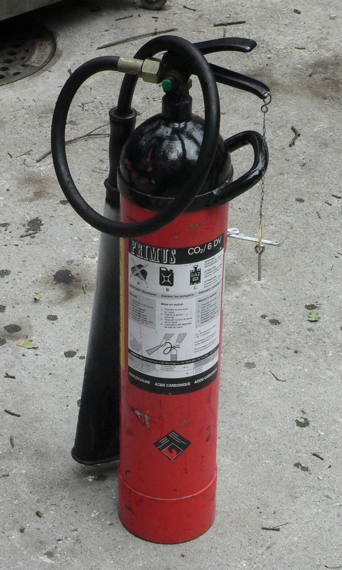 Primus CO2/6 DV Extinguisher